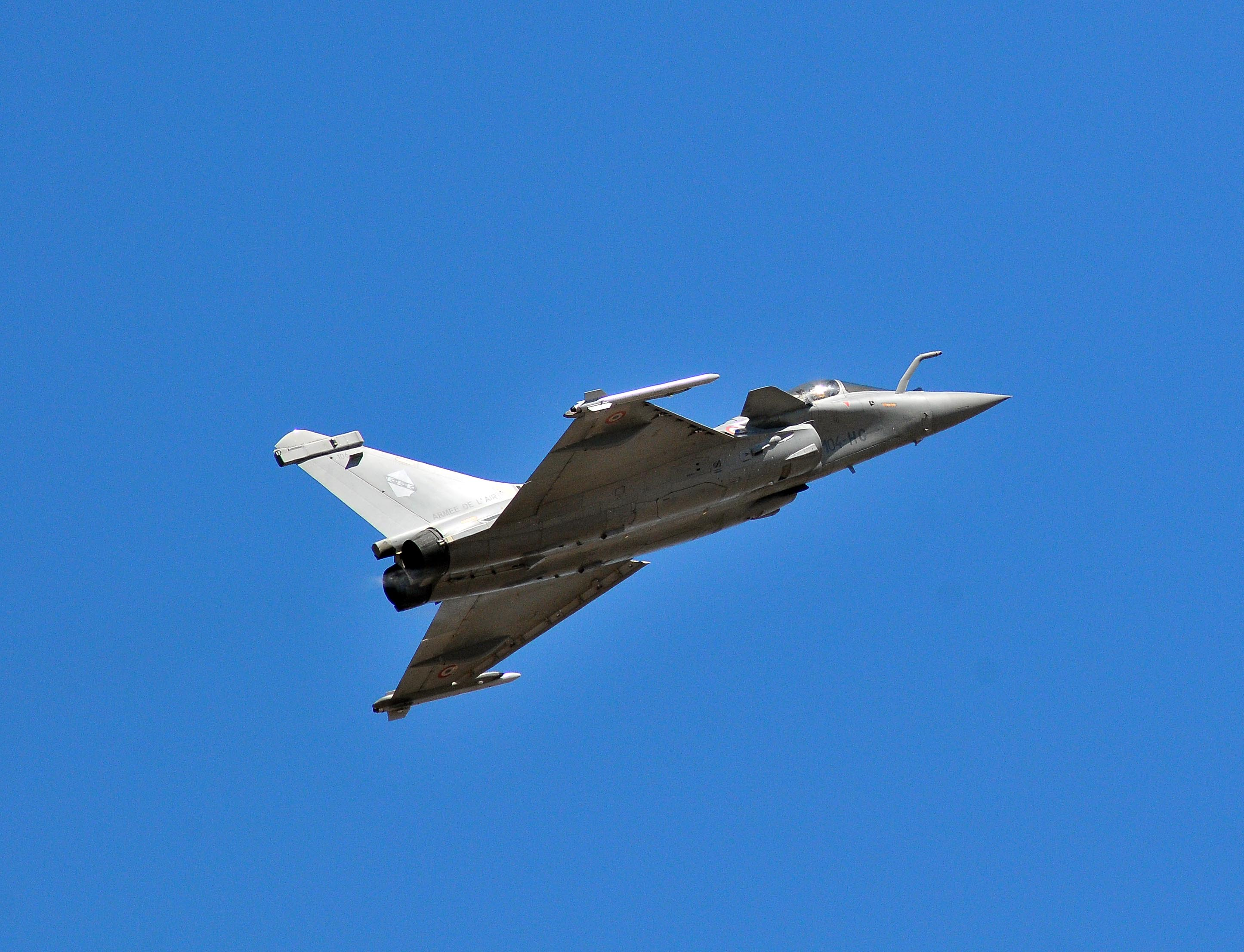 Aero india 2011